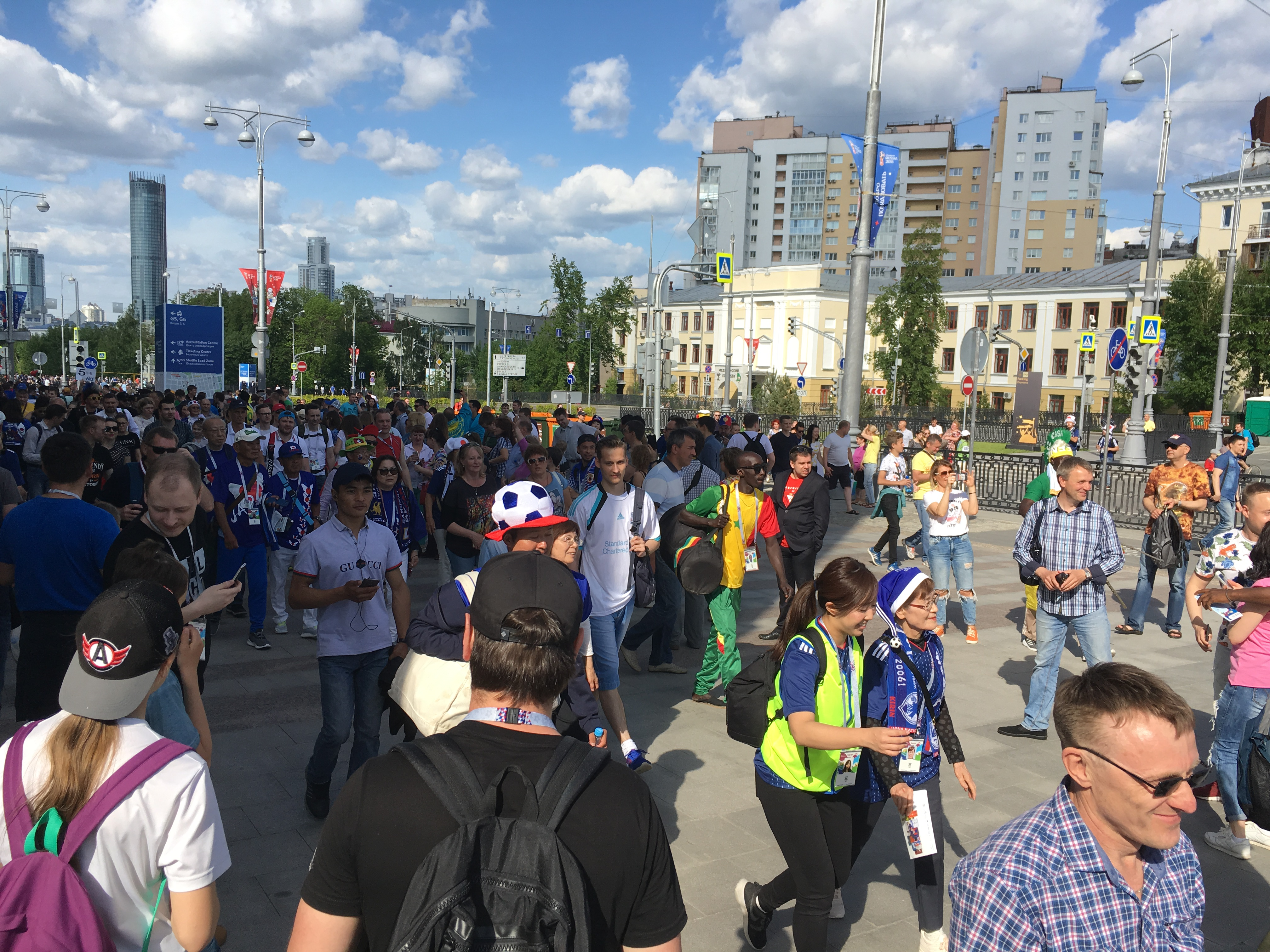 Japan-Senegal in Yekaterinburg (FIFA World Cup 2018)